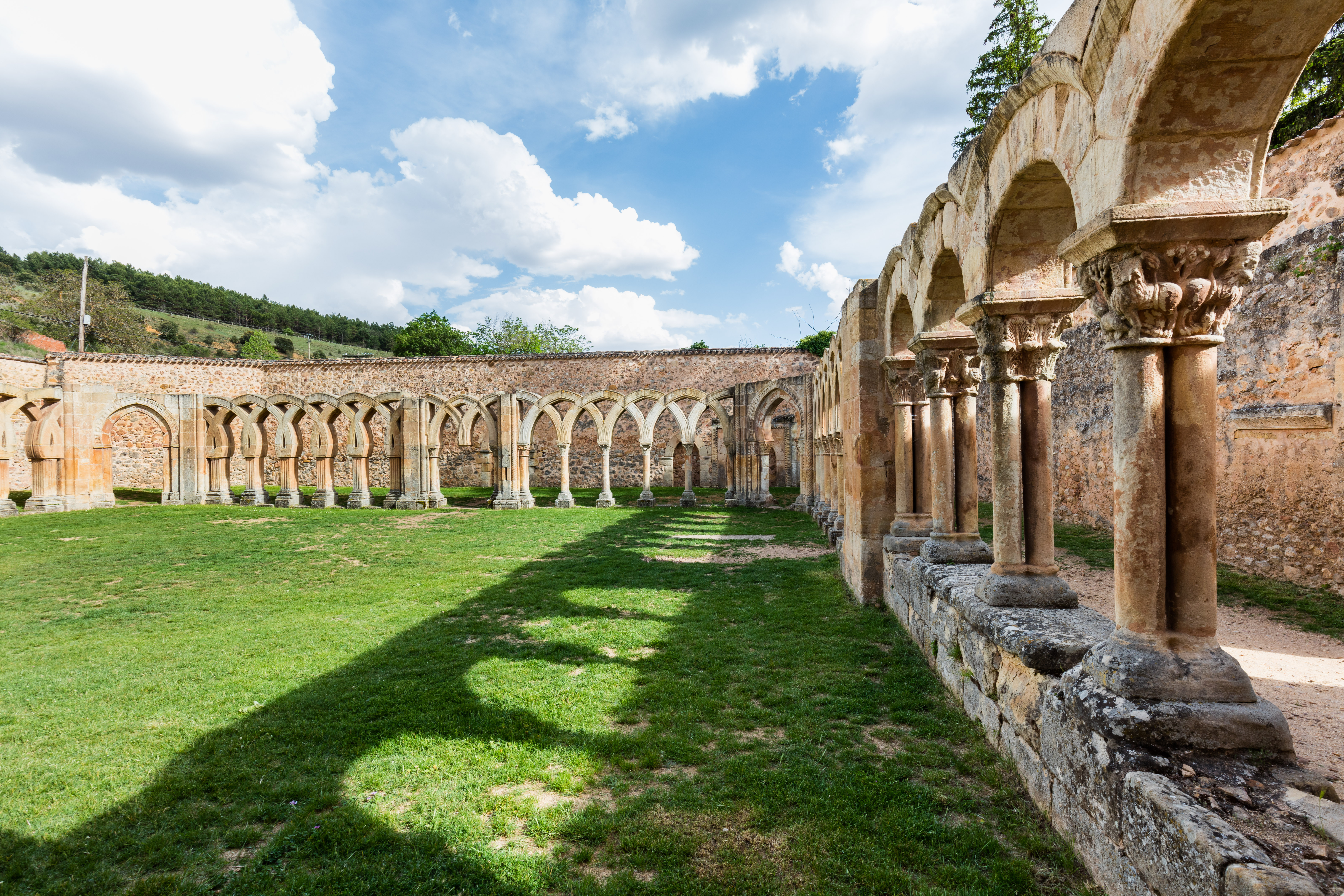 Monastery of San Juan de Duero, Soria, Spain